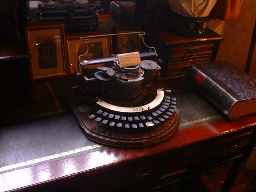 The typewriter at the end time of the 19th century, possessed by the Sherlock Holmes Museum.